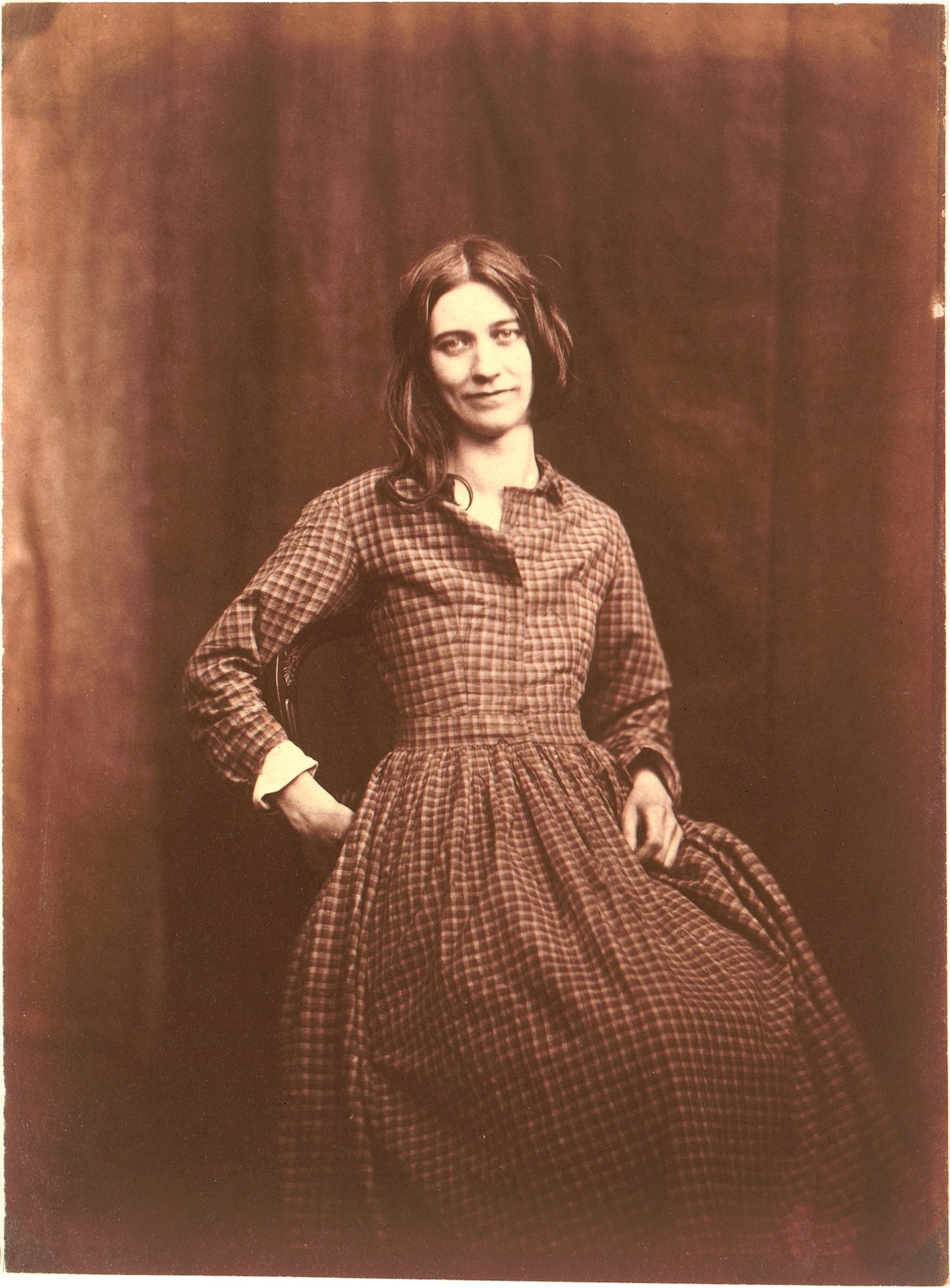 Patient, Surrey County Lunatic Asylum Albumen silver print from glass negative 19.1 × 14 cm (7.5 × 5.5 in)